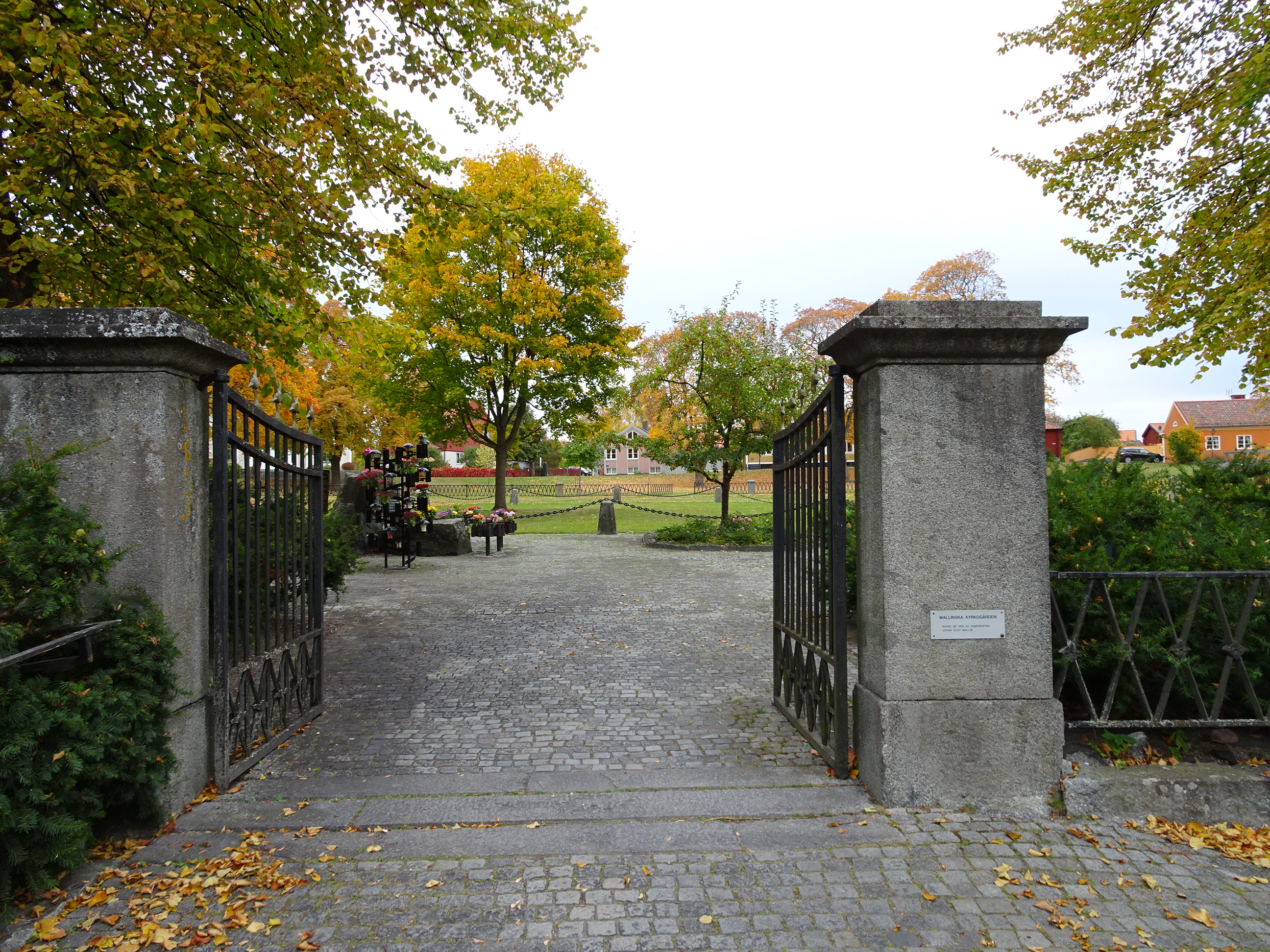 Wallinska kyrkogården, a cemetary in Västerås, Sweden, inaugurated year 1818 by dean Johan Olof Wallin.